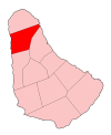 Map of Barbados showing Saint Peter parish.